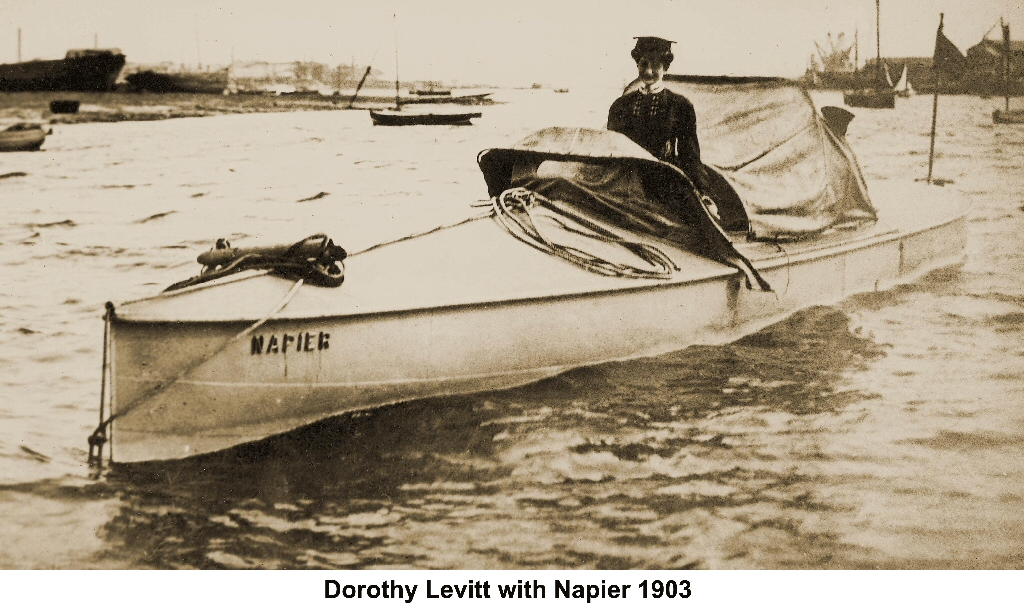 Dorothy Levitt helming the Napier motor yacht 1903. This is assumed to be Poole Harbour or possibly Cork Harbour. This is a low resolution image which is published at The Royal Motor Yacht Club - History. The identity of the original photographer and copyright holder is unknown and lost to history. The image is assumed to be public domain because it is over 100 years old.